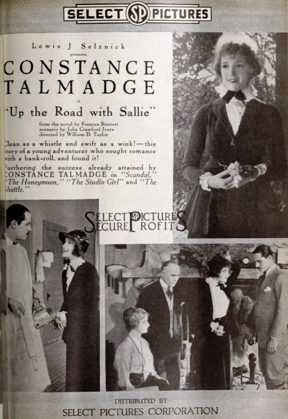 Advertisement for the American film Up the Road with Sallie (1918) with Constance Talmadge and Norman Kerry, on page 5 of the May 18, 1918 Exhibitors Herald.